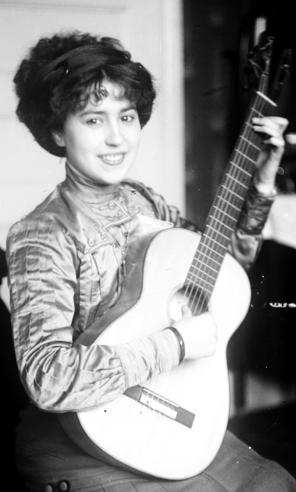 Spanish opera singer Elvira de Hidalgo (1892-1980)